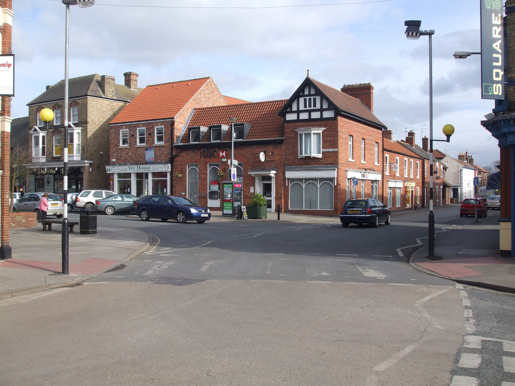 Market Place, Pavement, Regent Street, Railway Street Junction, Pocklington, East Riding of Yorkshire, England.This is the west end of the Market Place